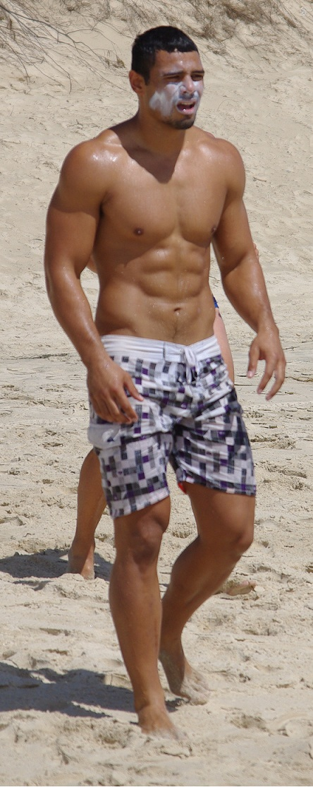 Ben Te'o training at the Gold Coast